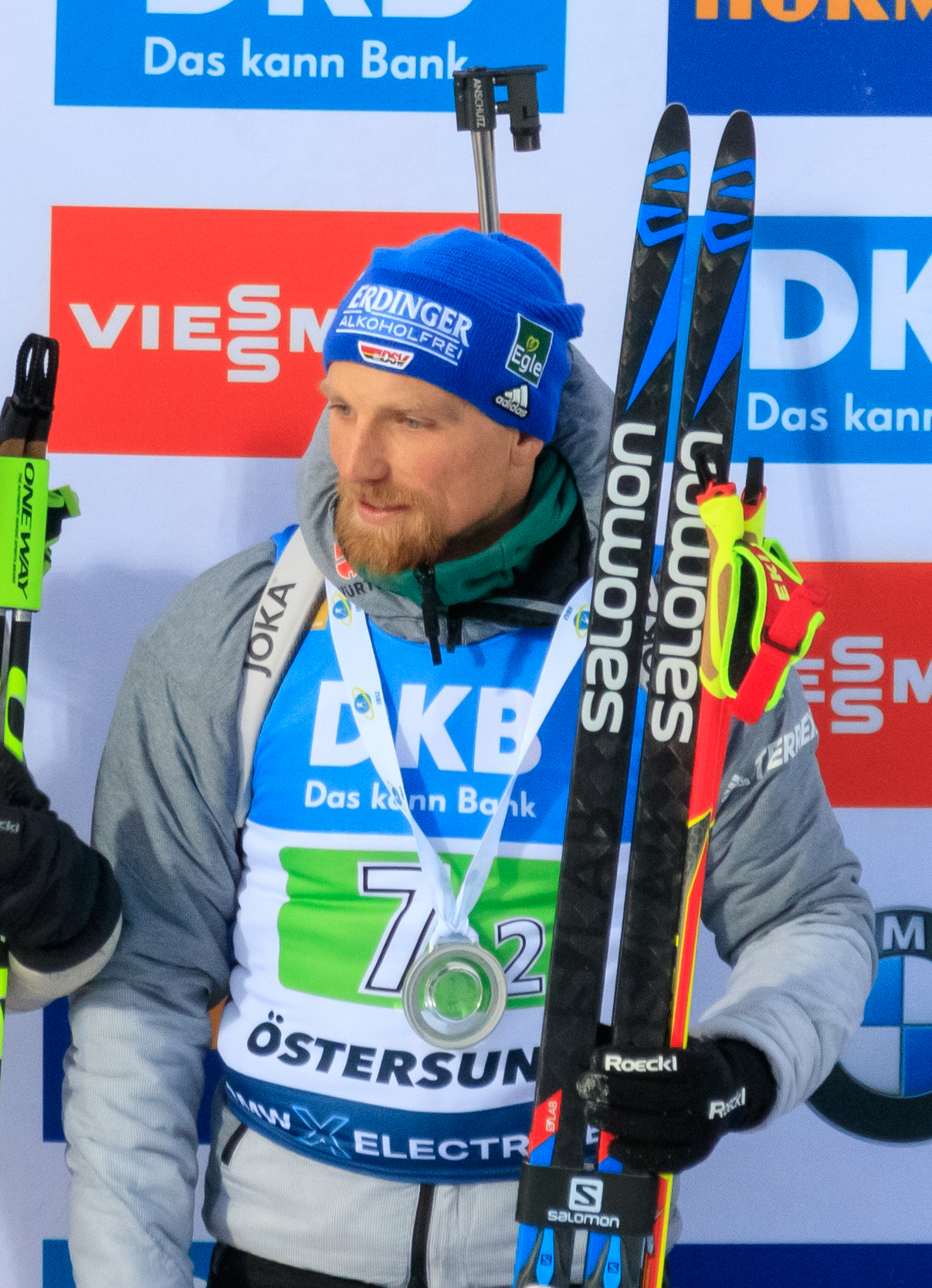 Erik Lesser in Östersund